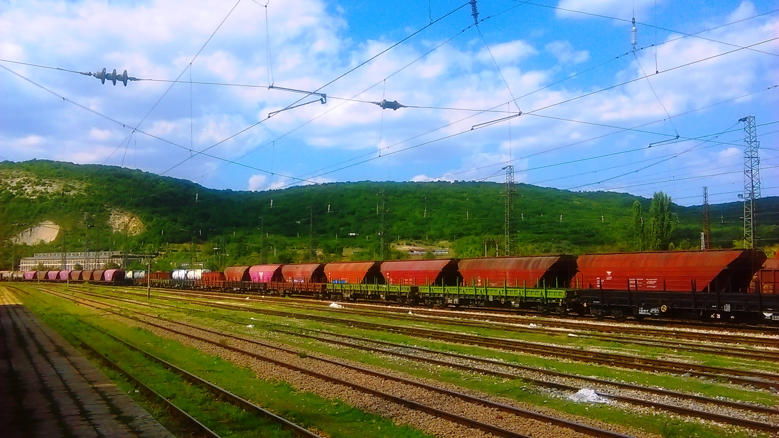 A railway cargo composition at Sindel station before the Avren plateau